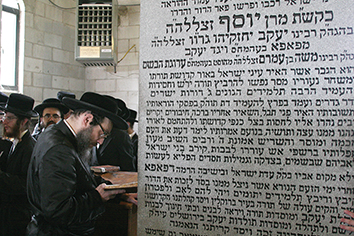 Pupa Rebbe at the graveside of his father